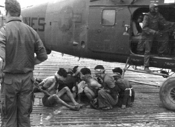 A photo of VC captives at Dong Ha, RVN